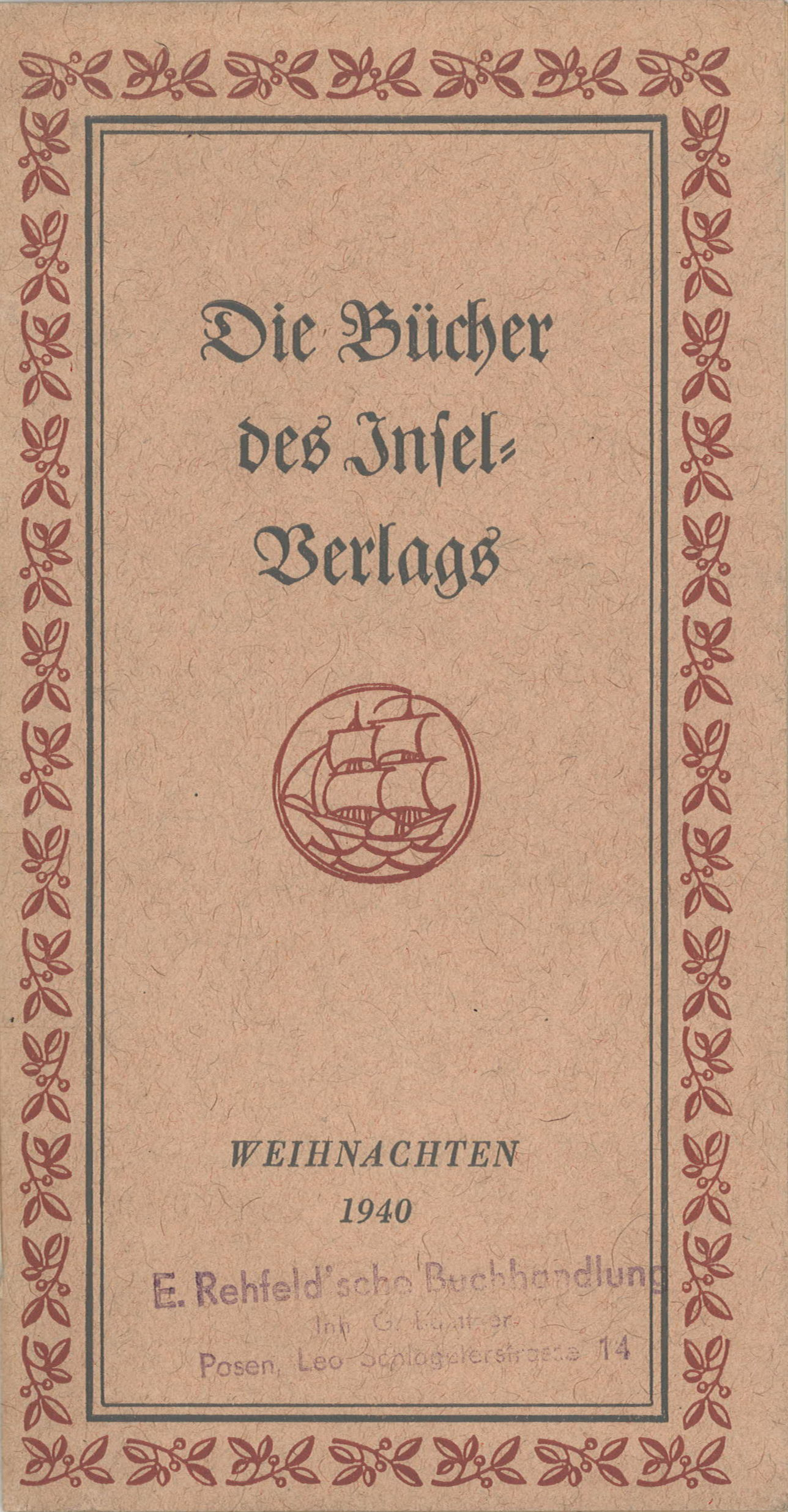 Frontcover of Insel Verlag's last total catalog before the end of WW II from 1940